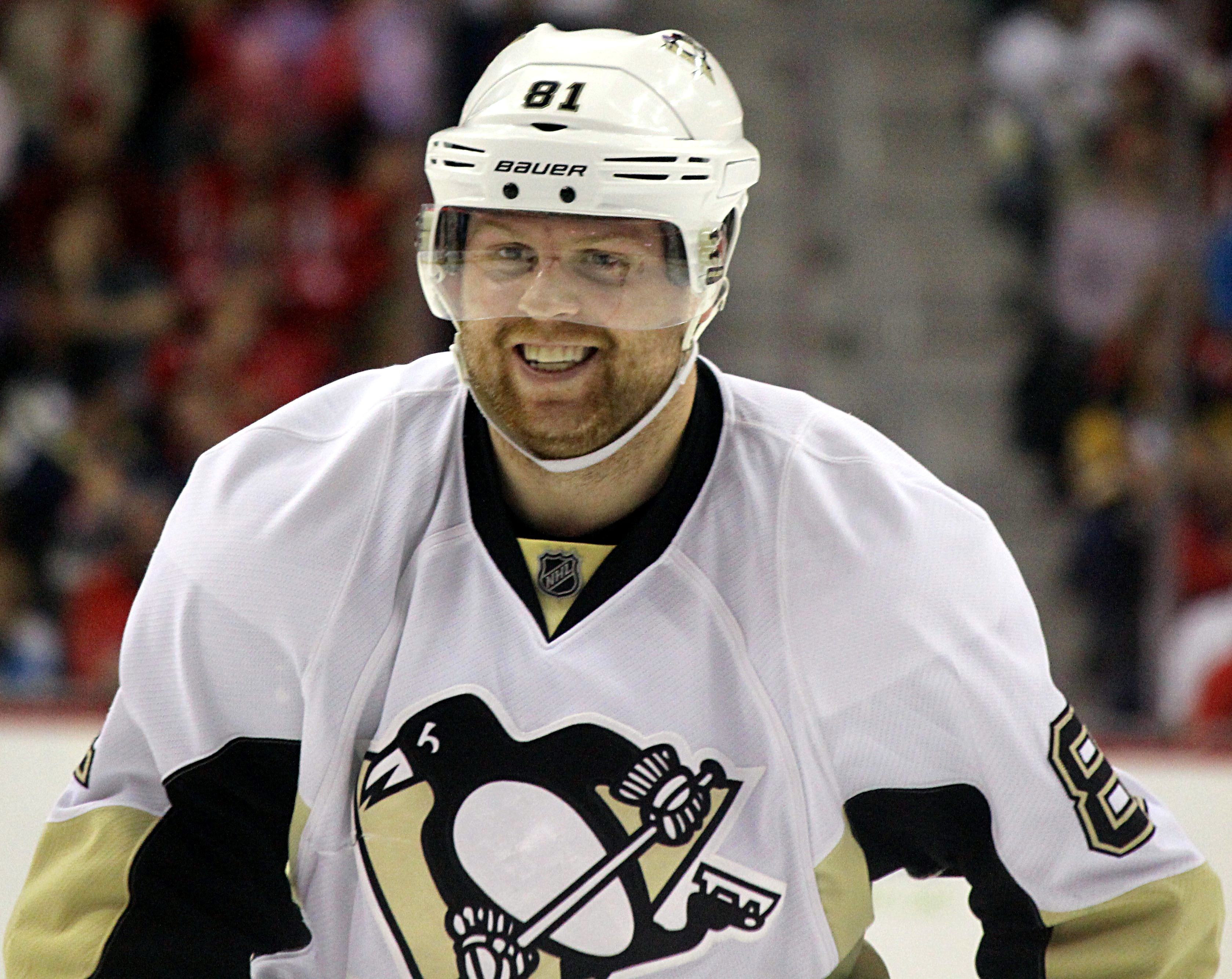 Pittsburgh Penguins forward Phil Kessel during a game against the Washington Capitals, Thursday, April 7, 2016 at Verizon Center in Washington, D.C.